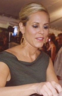 Actress Maria Bello signing a autograph on the cover of a copy of the DVD version of the Coyote Ugly[1]during the Toronto International Film Festival